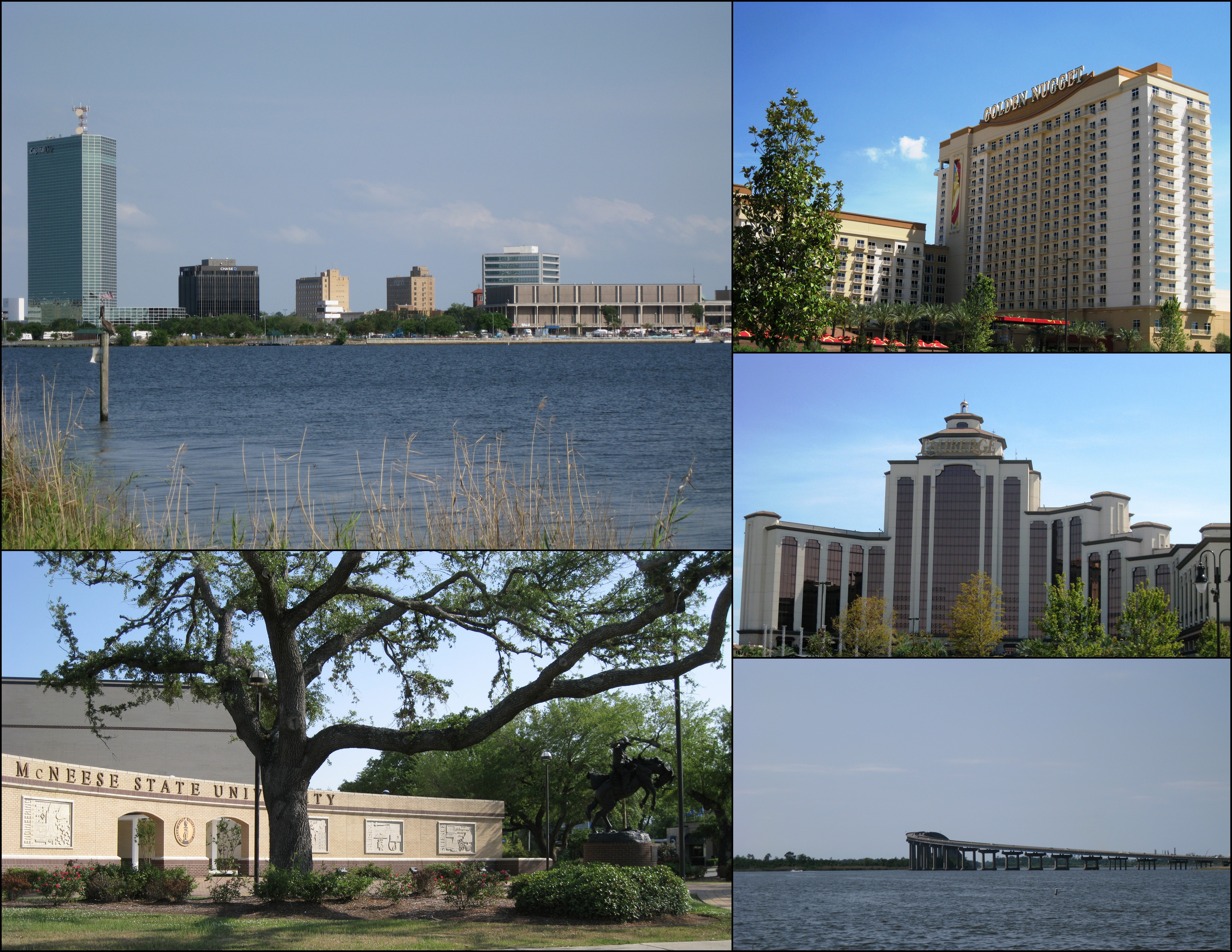 Collage of Lake Charles, Louisiana. Clockwise from top left: Downtown skyline; Golden Nugget Casino; L'Auberge du Lac Casino; Israel LaFleur Bridge; McNeese State University entrance plaza.